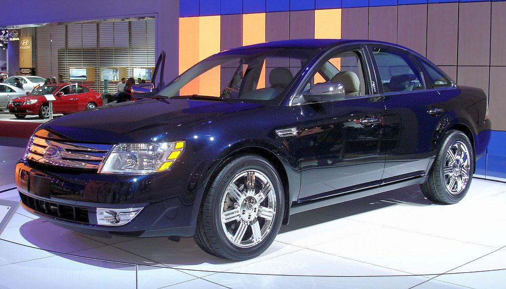 2008 Ford Five Hundred concept, later renamed the Taurus.